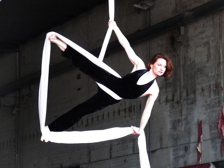 Aerial silk solo from Fred Deb', French aerialist, Drapés Aériens company